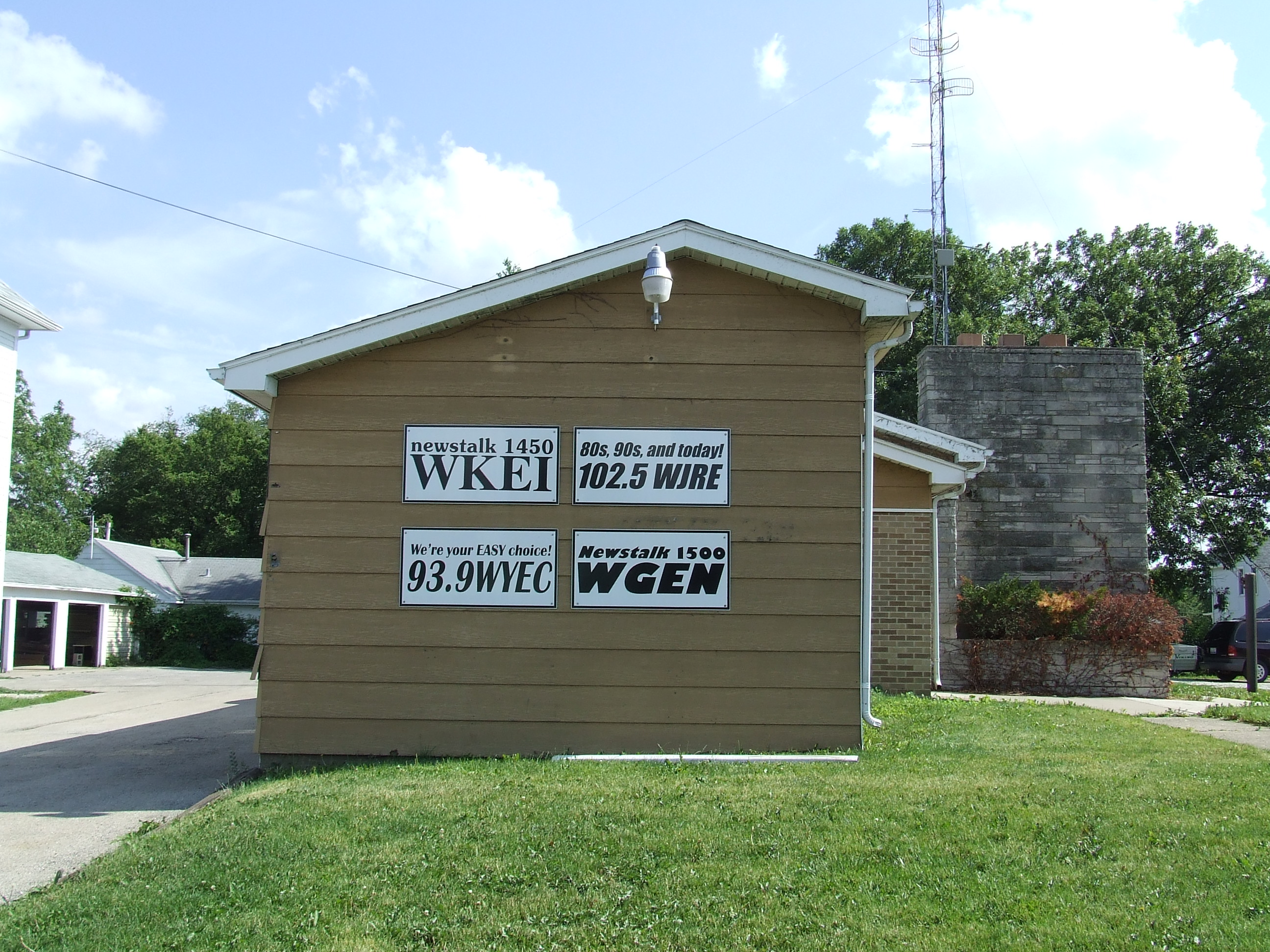 A view of the Kewanee, Illinois radio stations' building on E. Division St.